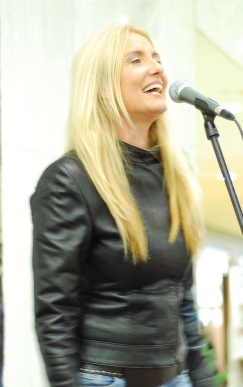 Sass Jordan at Busking For Change 2009